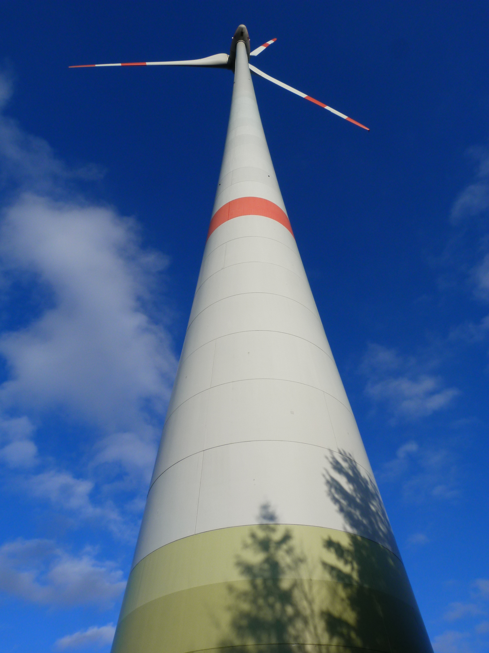 Wind turbine "Windenergie Osterkling", Bruck (Bavaria) - Enercon E-82 E2, hub height 138m , 2300 kW, built in 2016